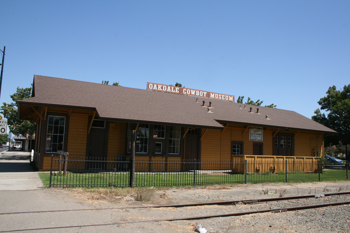 Oakdale Cowboy Museum in Oakdale, California